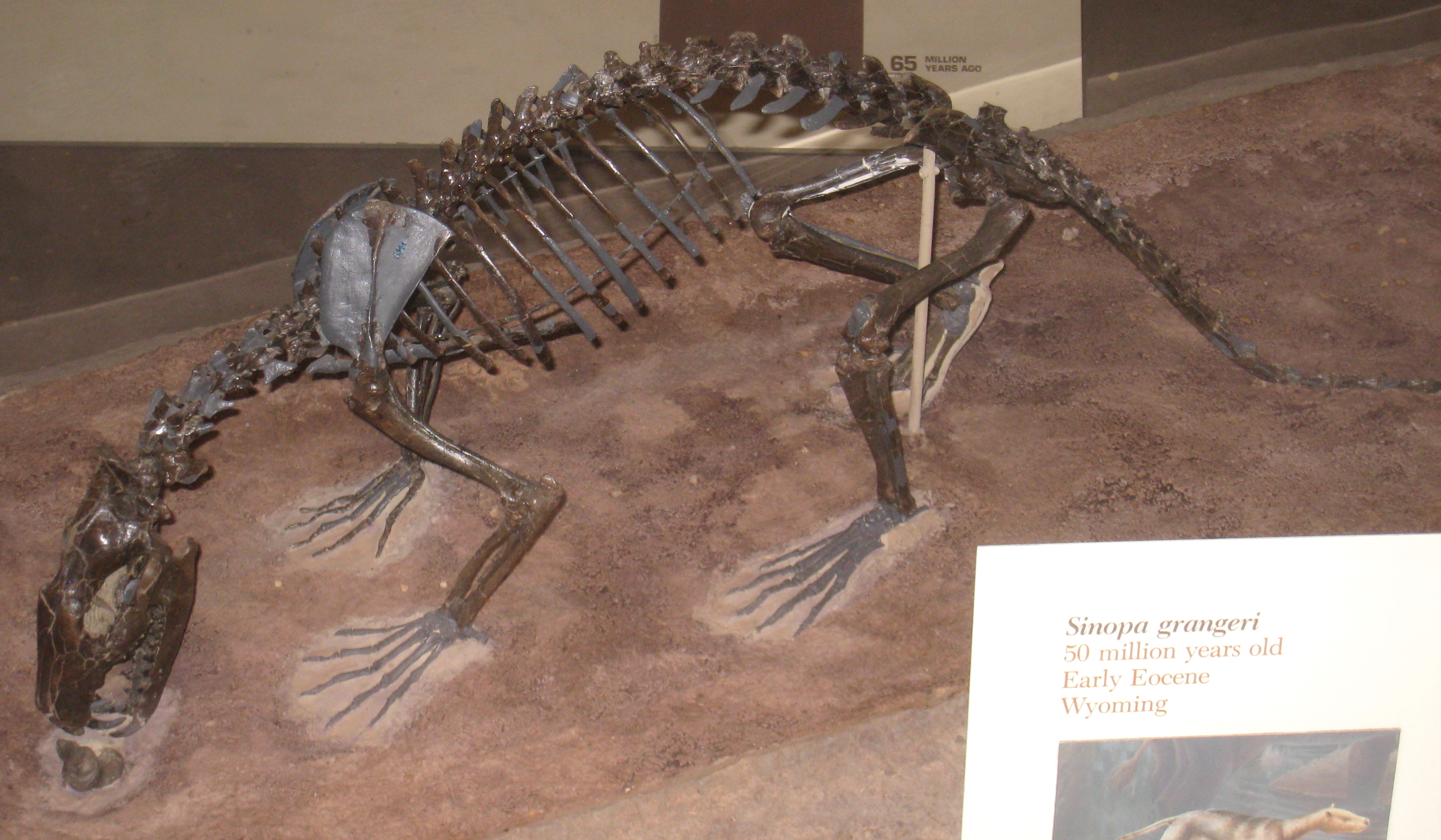 Sinopa grangeri fossil specimen in the National Museum of Natural History, Smithsonian Institution, Washington, DC, USA.